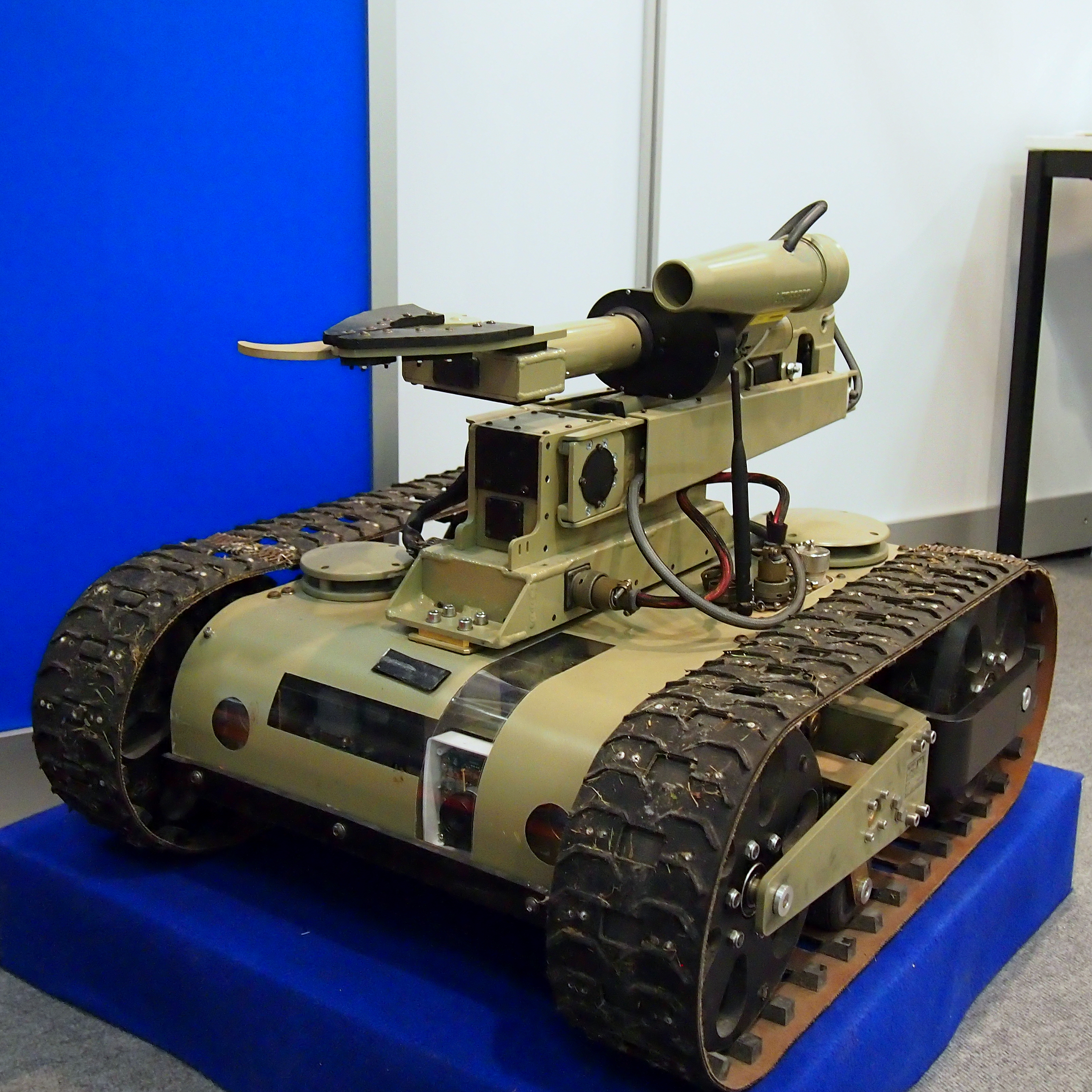 Embedded World 2014: Unmanned Ground Vehicle (UGV) Robot Leopardo B, built by EuroLink Systems shown at Embedded World Fair 2014 in Nuremberg